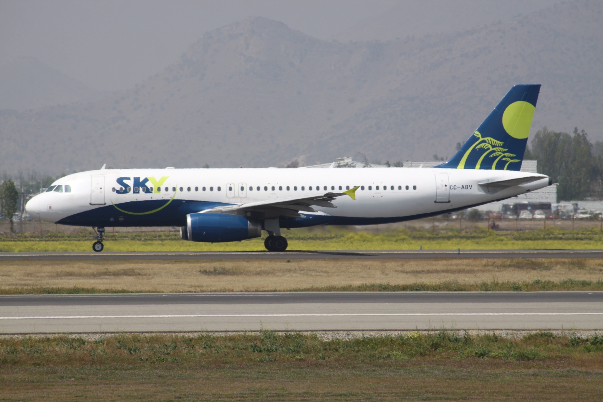 At Santiago